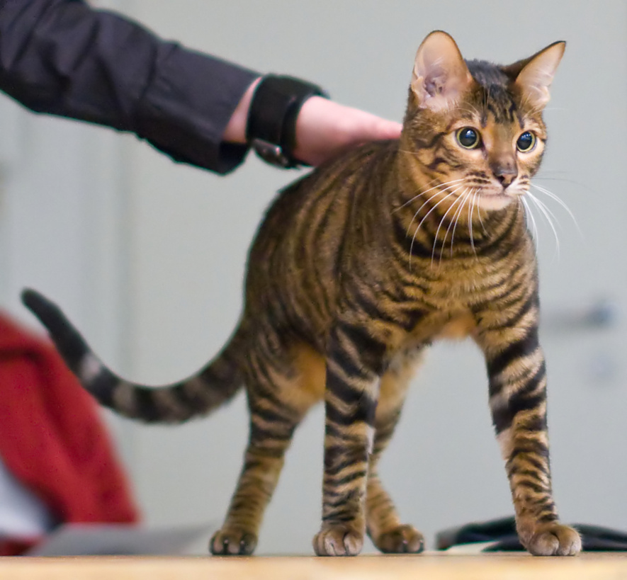 Toyger, in a cat show focusing on the Cornish Rex breed. Source